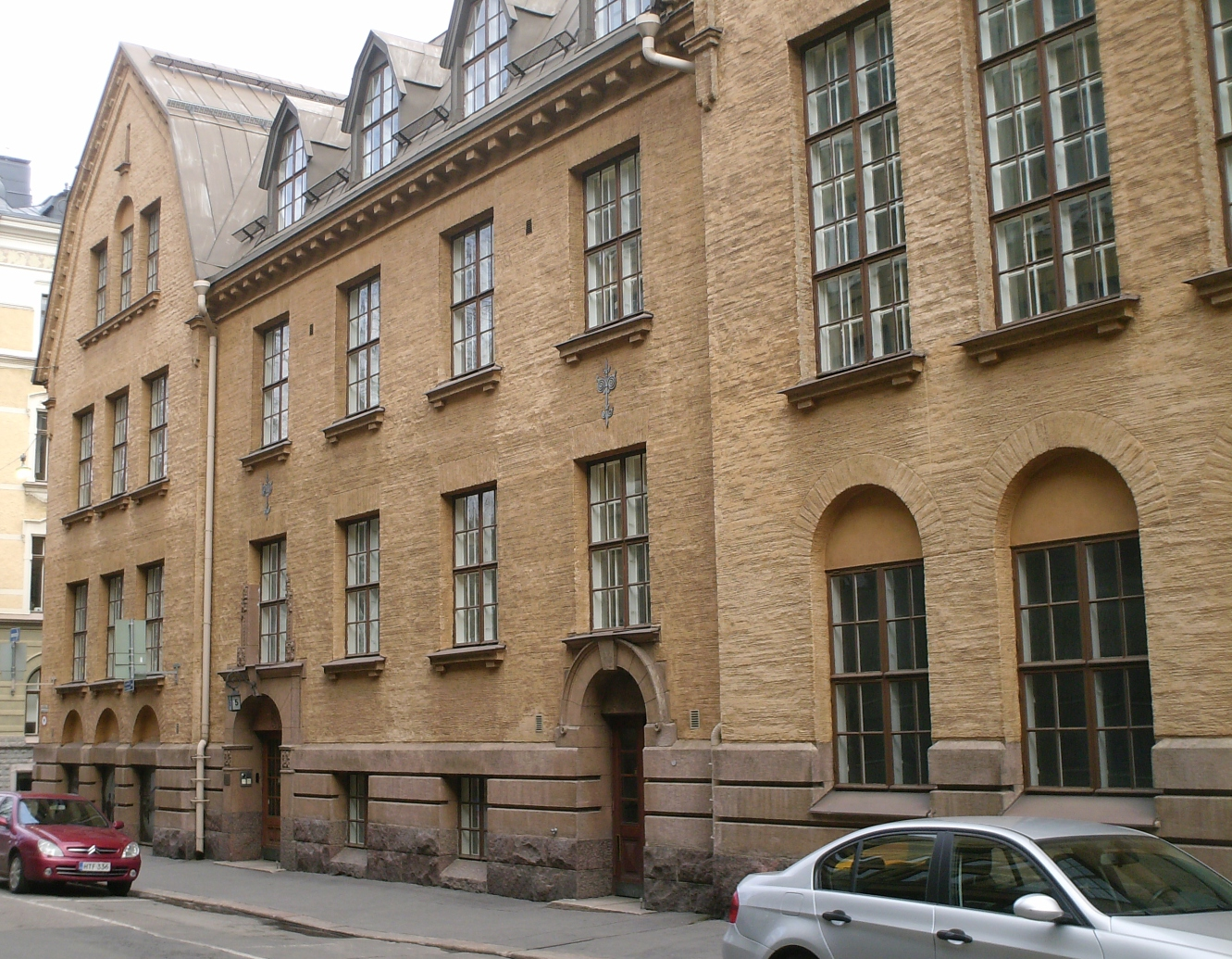 The building of Svenska litteratursällskapet i Finland, in Kruununhaka (Kronohagen), Helsinki (Helsingfors).